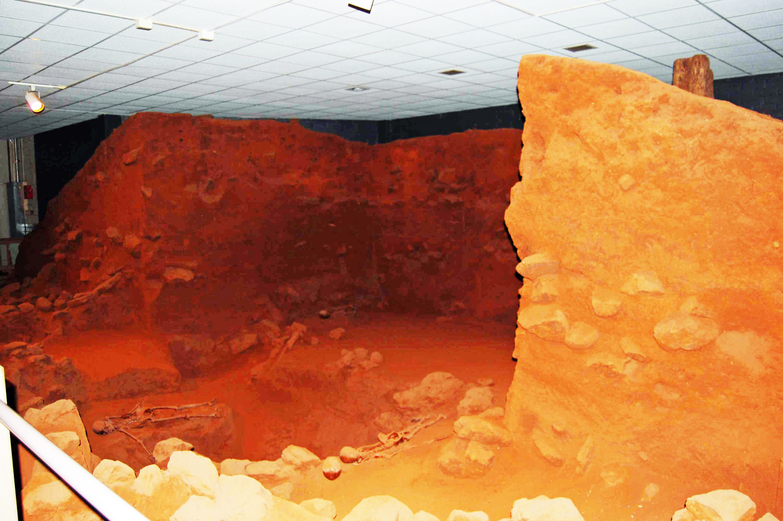 Inside museum built around mound excavation side